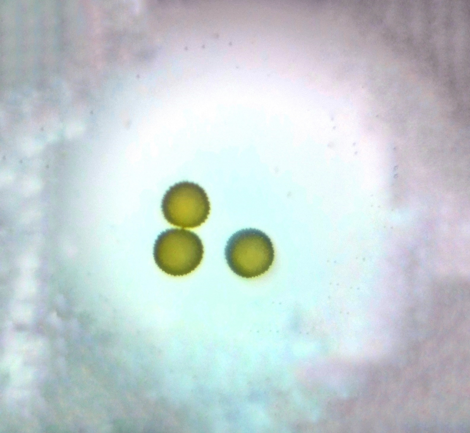 these are the pollen grains of Genus sida. I found this flower near my home and I observed it under a foldscope(mag - 140x). they have very small hair like structure that helps the pollen to travel.